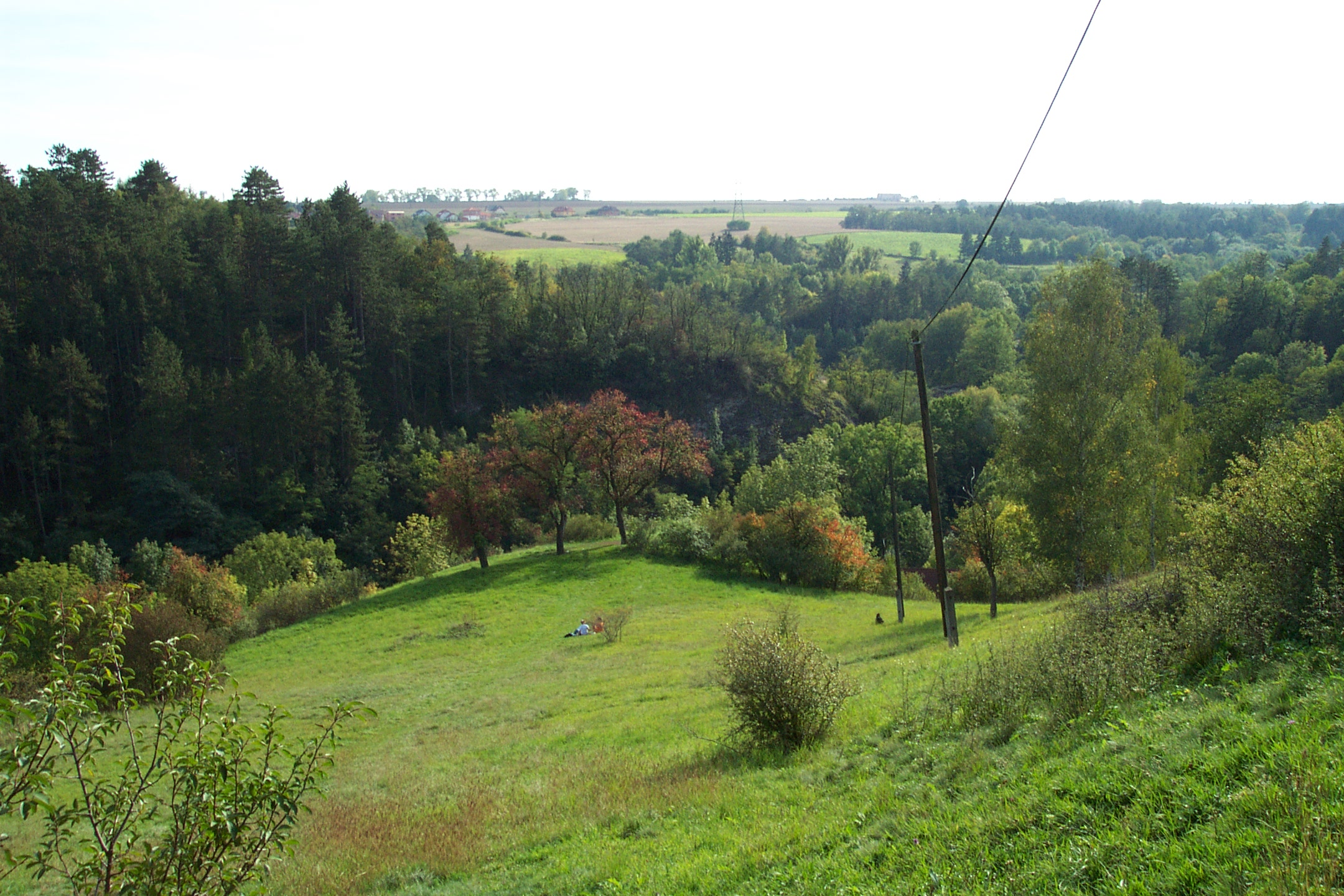 Nature on the slopes of the Dalejský potok creek valley